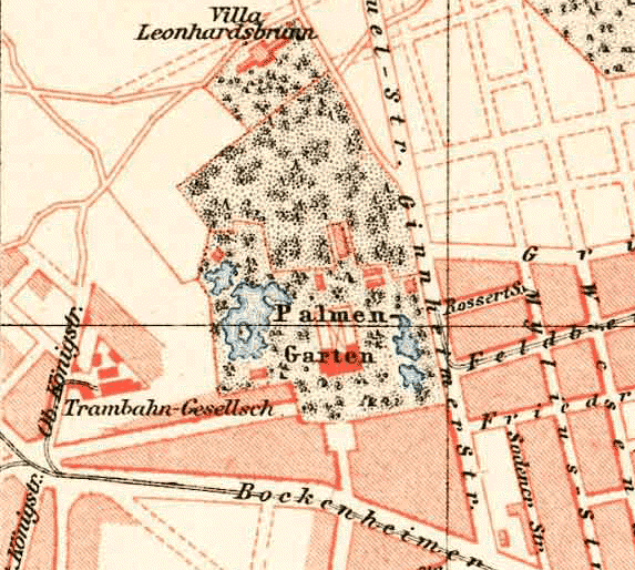 Frankfurt city map, 1893, showing the West End and the Palmengarten.